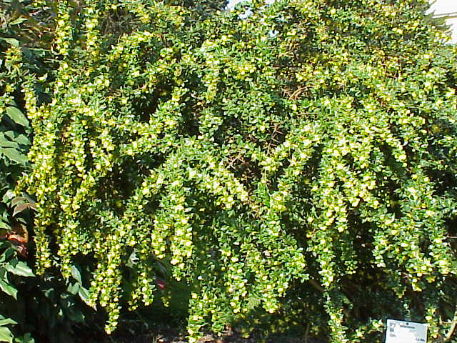 Species: Berberis verruculosa Family: Berberidaceae Image No. 2